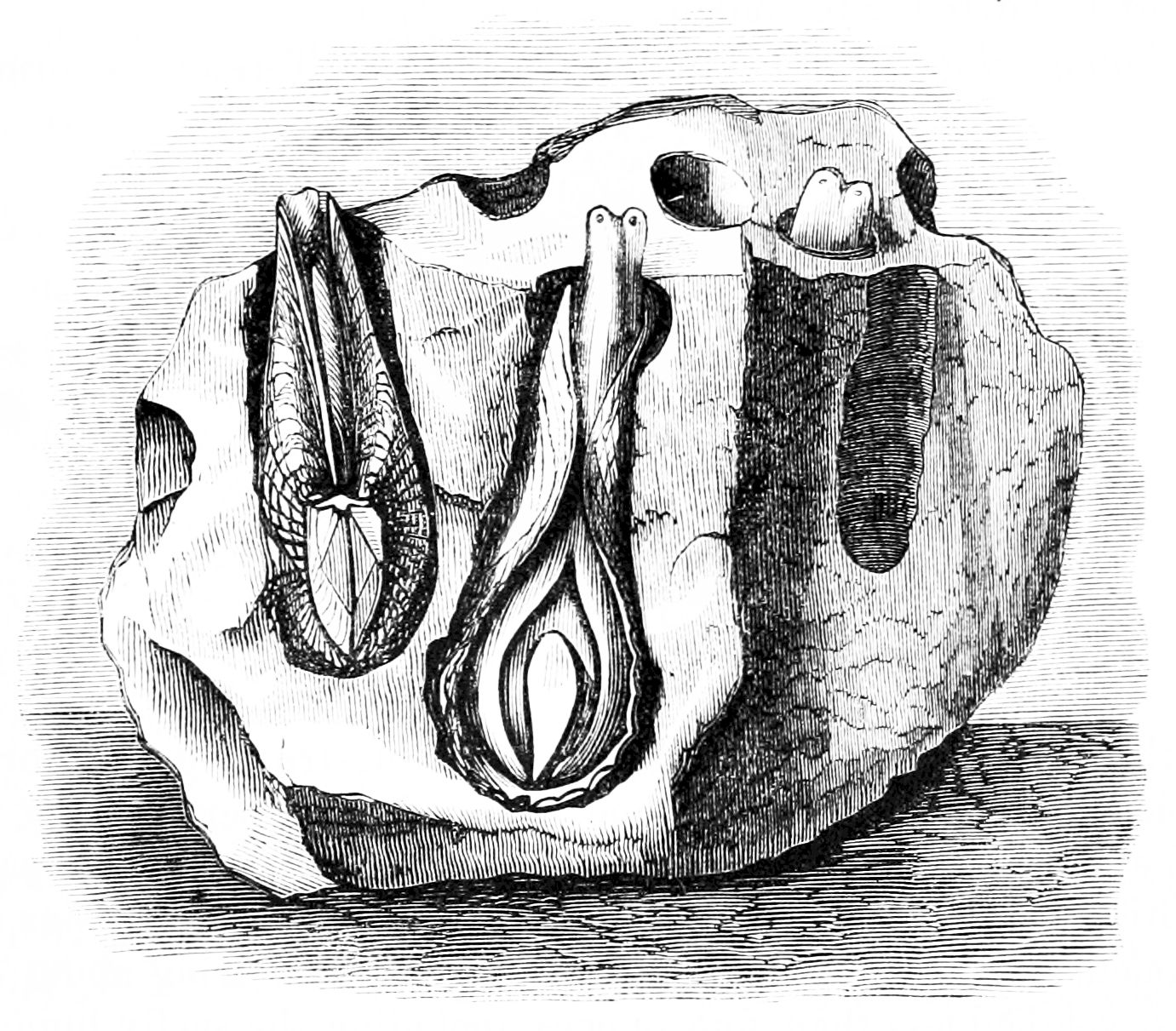 Rock perforated by pholades